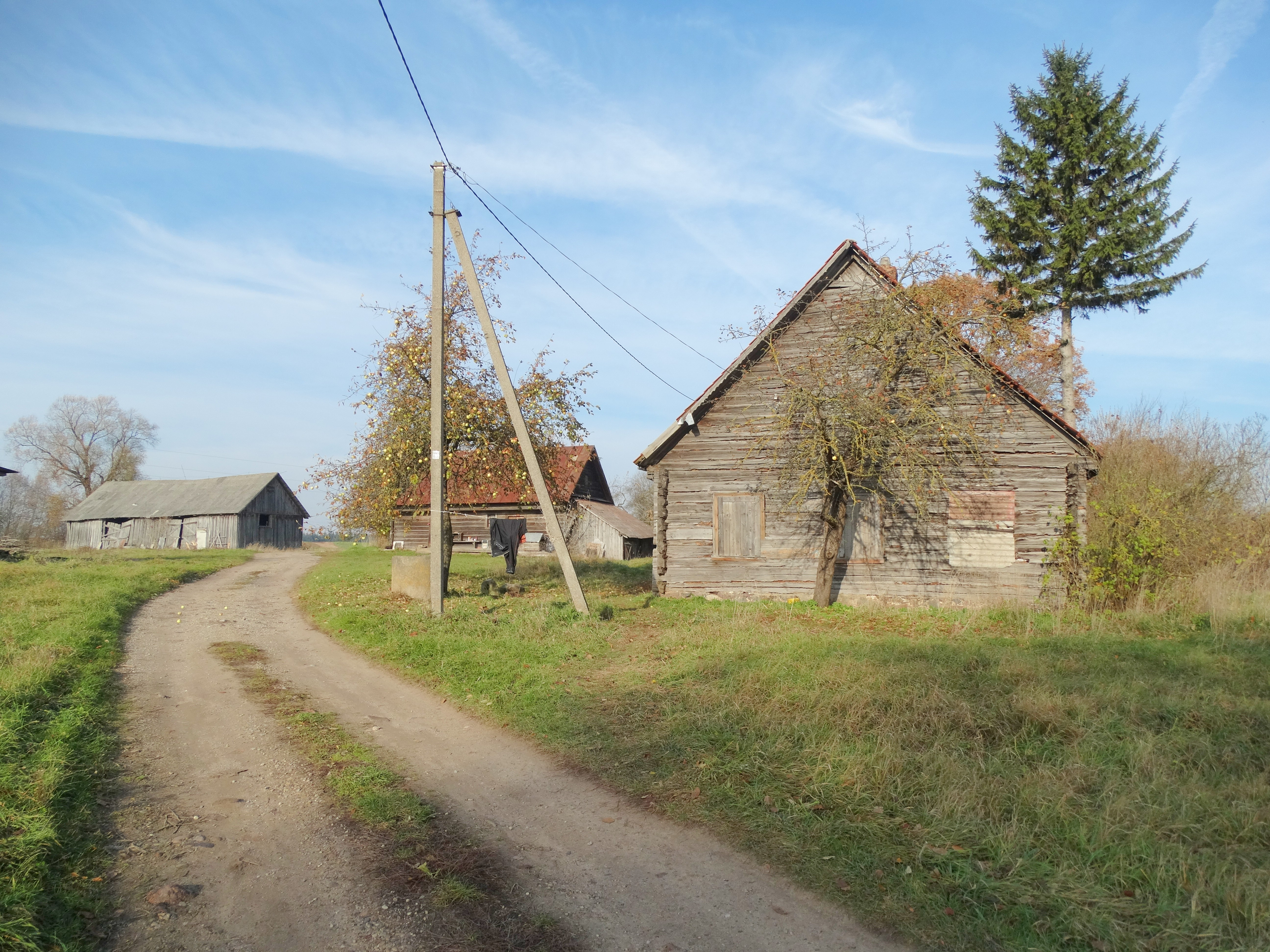 Papyvesiai, Pasvalys District, Lithuania